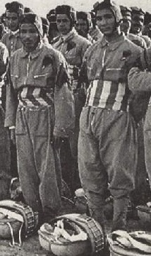 Image of Libyan paratroopers of the Italian Army at Castel Benito airport.